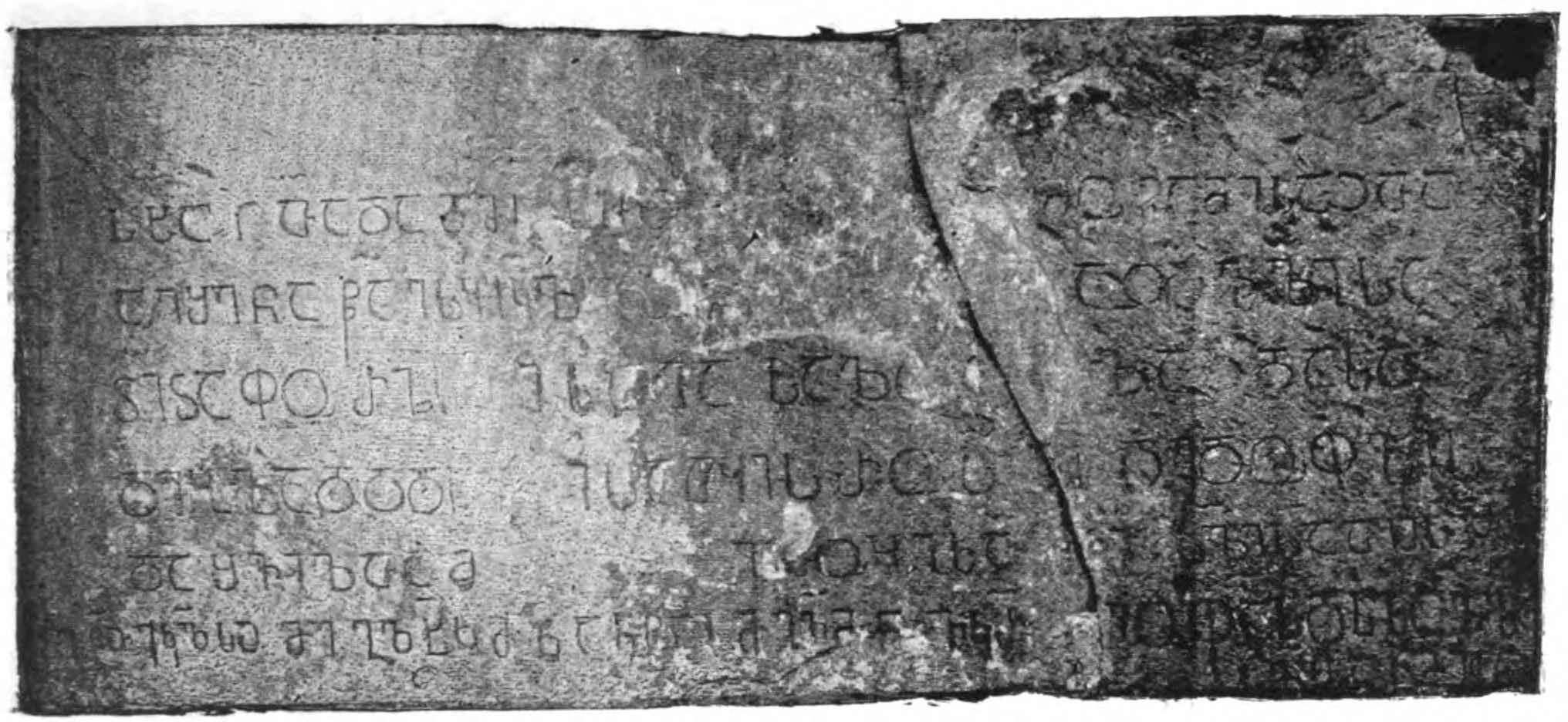 A vintage photo of the old Georgian asomtavruli inscription on the southern wall of the medieval church of Gudarekhi in Kvemo Kartli, Georgia. From the archaeological survey authored by Ekvtime Takaishvili, 1904.